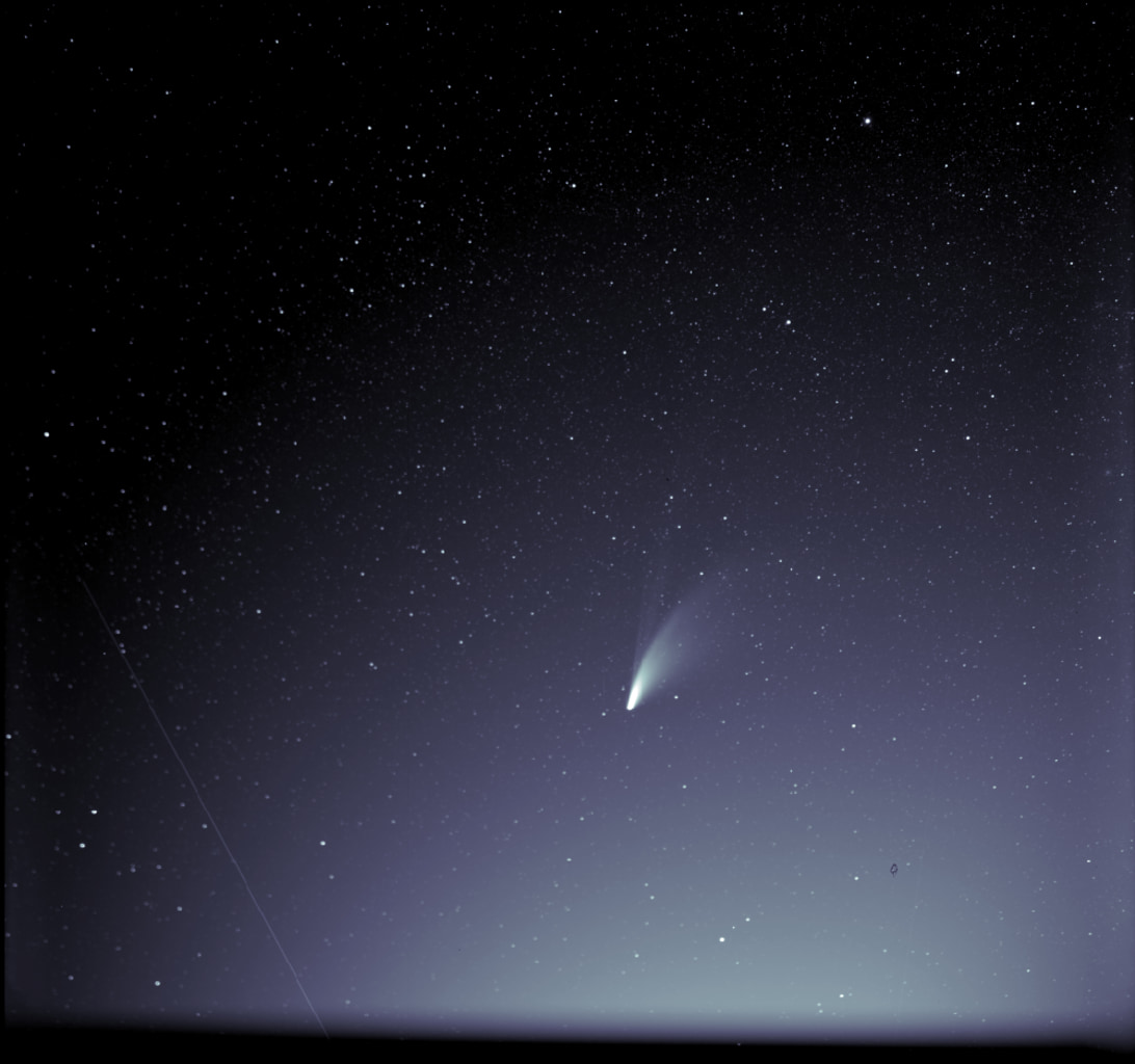 An unprocessed image from the WISPR instrument on board NASA’s Parker Solar Probe shows comet NEOWISE on July 5, 2020, shortly after its closest approach to the Sun. The Sun is out of frame to the left. The white streak near the upper left corner of the image is light reflected off a grain of dust that passed through the instrument’s field of view during the observation. The faint grid pattern near the center of the image is an artifact of the way the image is created. The small black structure near the lower left of the image is caused by a grain of dust resting on the imager’s lens.